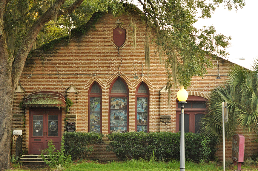 Melting Pot restaurant building on University Avenue in Gainesville, Florida. Photograph courtesy of Rebecca Fitzsimmons.